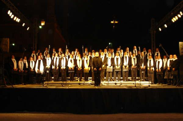 Group photo of the Cairo Celebration Choir